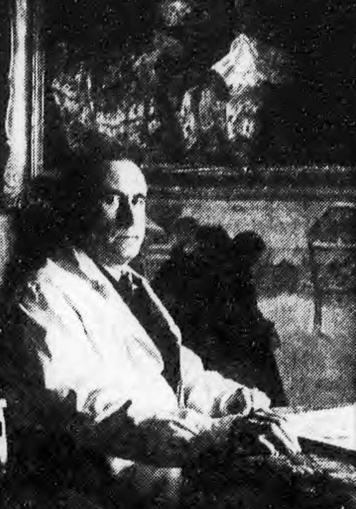 Jan Šebek (1860-1966), Czech painter